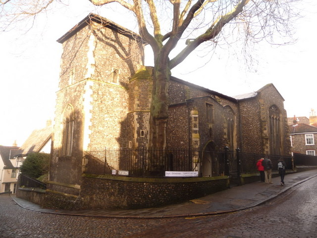 Norwich: former church of St. Peter Hungate A fifteenth-century church in Princes Street. The tower was built in 1431, with the pyramid top added in 1904 to replace the belfry area which had become unsafe. Although it was much restored in the first decade of the 20th century, it had fallen into a bad state again by the 1930s and might have been demolished but for the Norfolk Archæological Society's efforts in raising the funds to repair it once more. It was a museum of church art from 1936 to 1995.